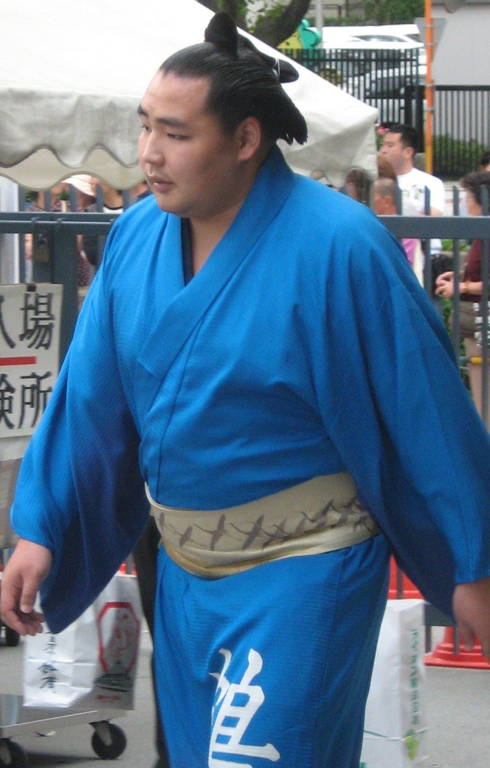 Taken before 2008 Sep tournament